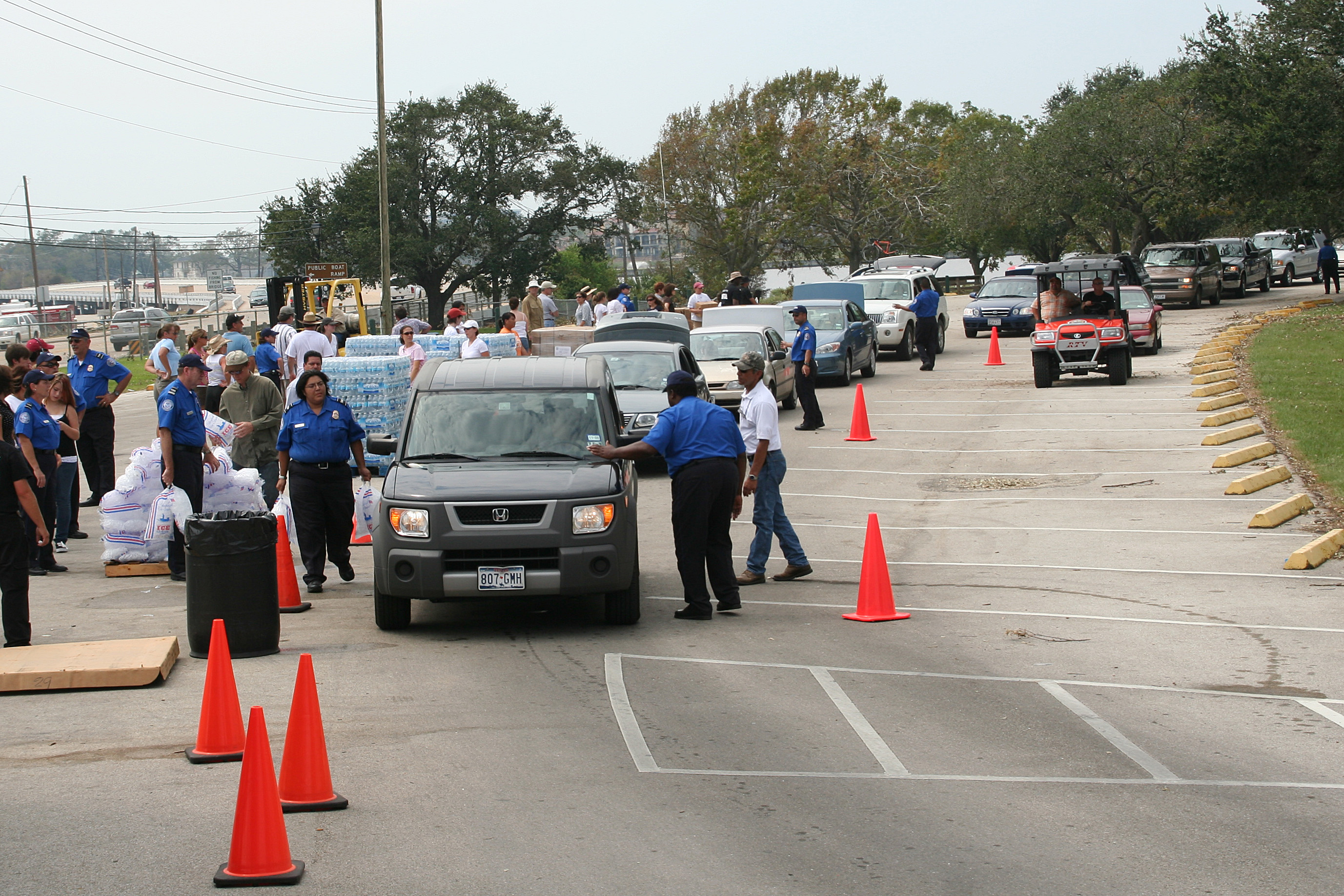 Houston, TX, September 19, 2008 -- At the FEMA POD on East NASA Parkway, blue-shirted TSA Officers were prominent among the volunteers handing out food, water, and ice to victims of Hurricane Ike. Much of Houston is still without power, so the lines of residents needing supplies are still long six days after Ike blew into town. Photo by Greg Henshall / FEMA